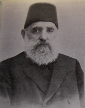 Küçük Mehmet Sait Pasha, Grand Vizier of the Ottoman Empire